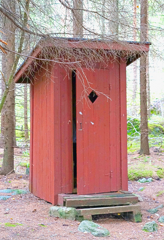 Outhouse in Jääskelä nature trail.This photograph was taken with a Sony ILCE-5000